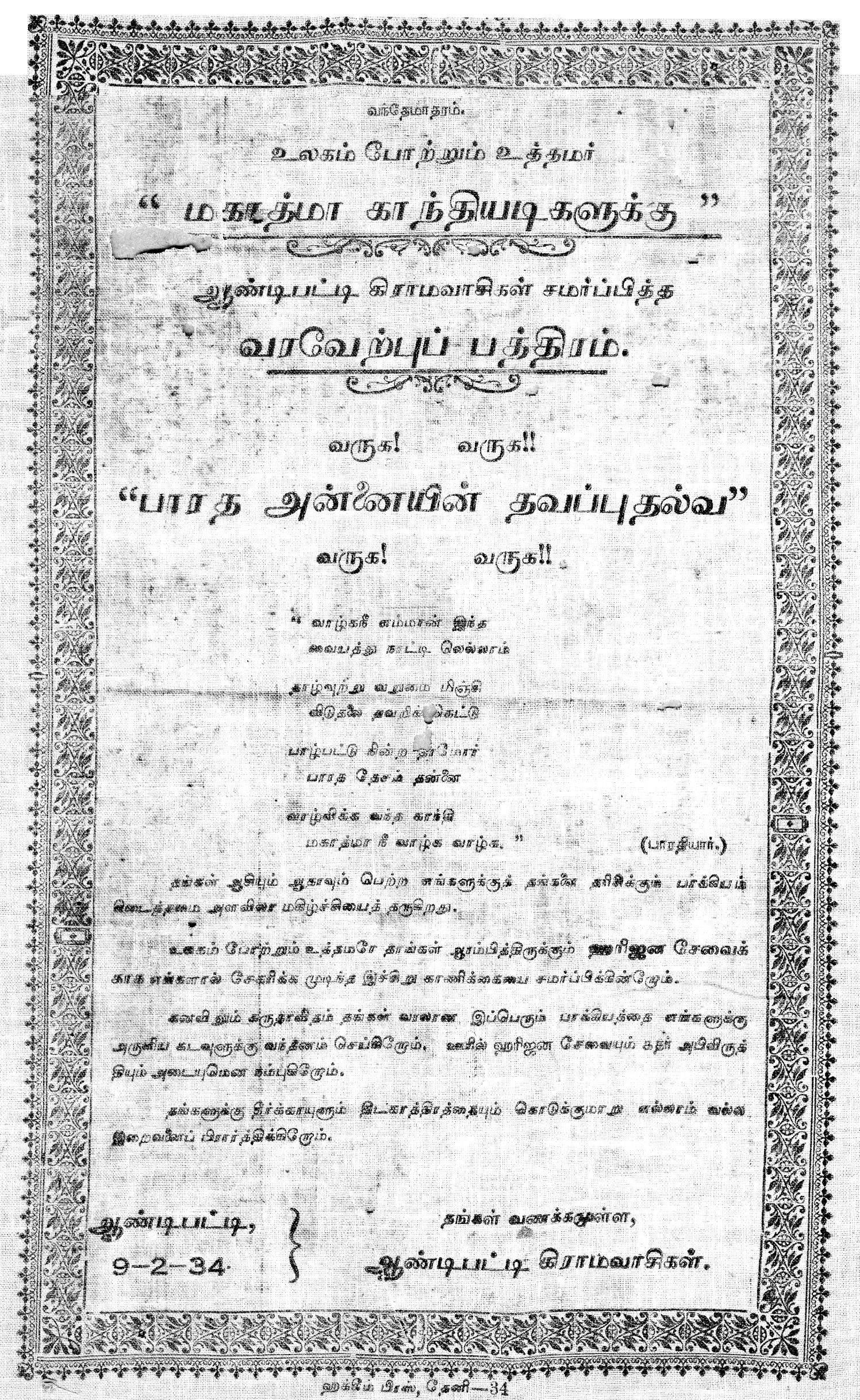 Photo copy of Welcome Address presented to Mahatma Gandhi by Andipatti villagers